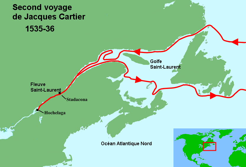 Map of Jacques Cartier's second voyage to North America in 1535-6.